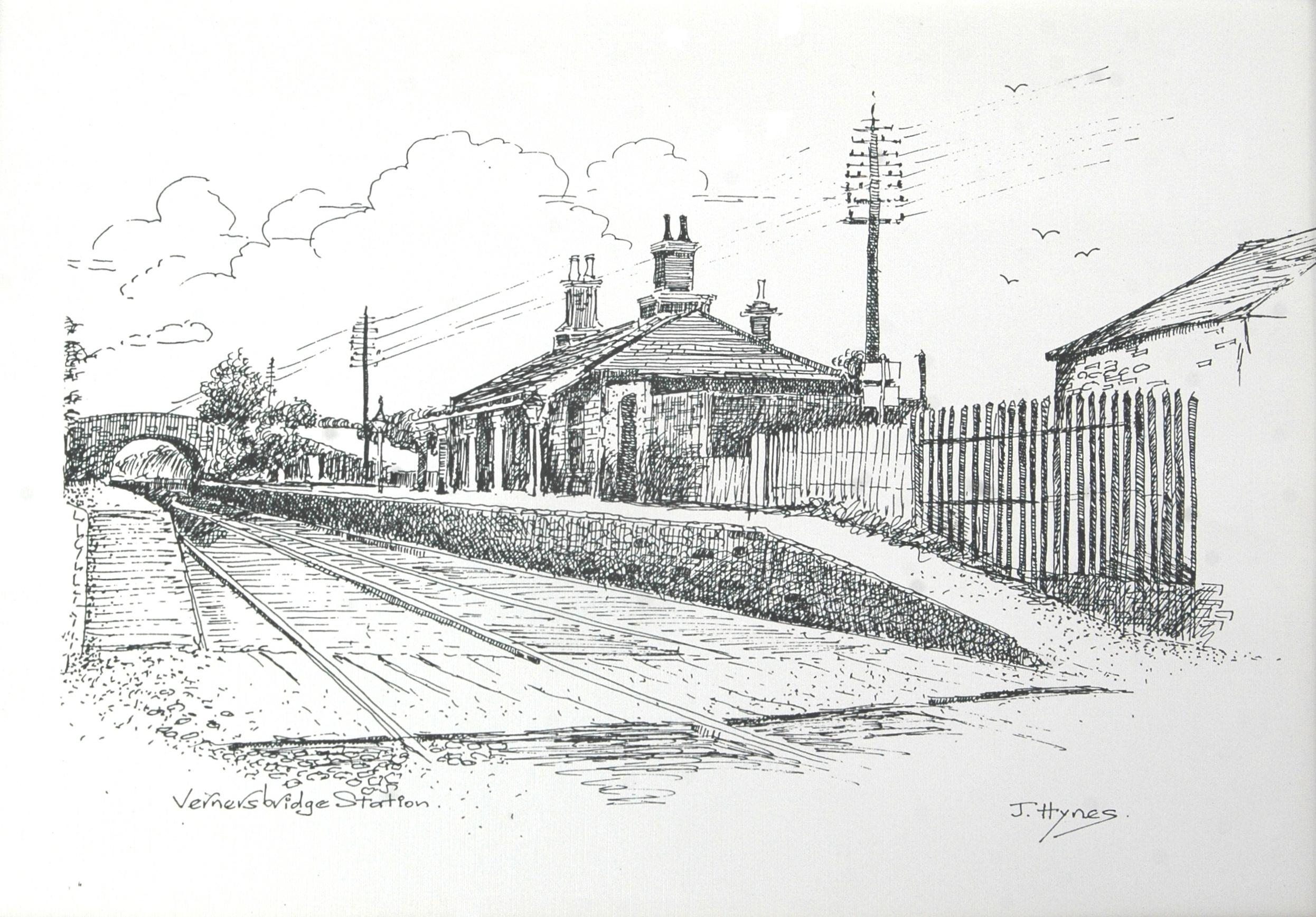 Photograph by me of line drawing by J Hynes, showing Vernersbridge railway station, Armagh, Northern Ireland, somewhen before it was closed in 1954.